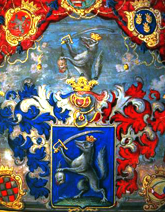 Novosel COA, 18th century, State Archives, photo